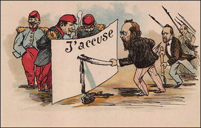 Postcard of Emile Zola and his famous article J'Accuse...!